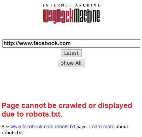 A message about the crawler not being able to do its work due to robots.txt. The screenshot is from the Wayback Machine trying to crawl .